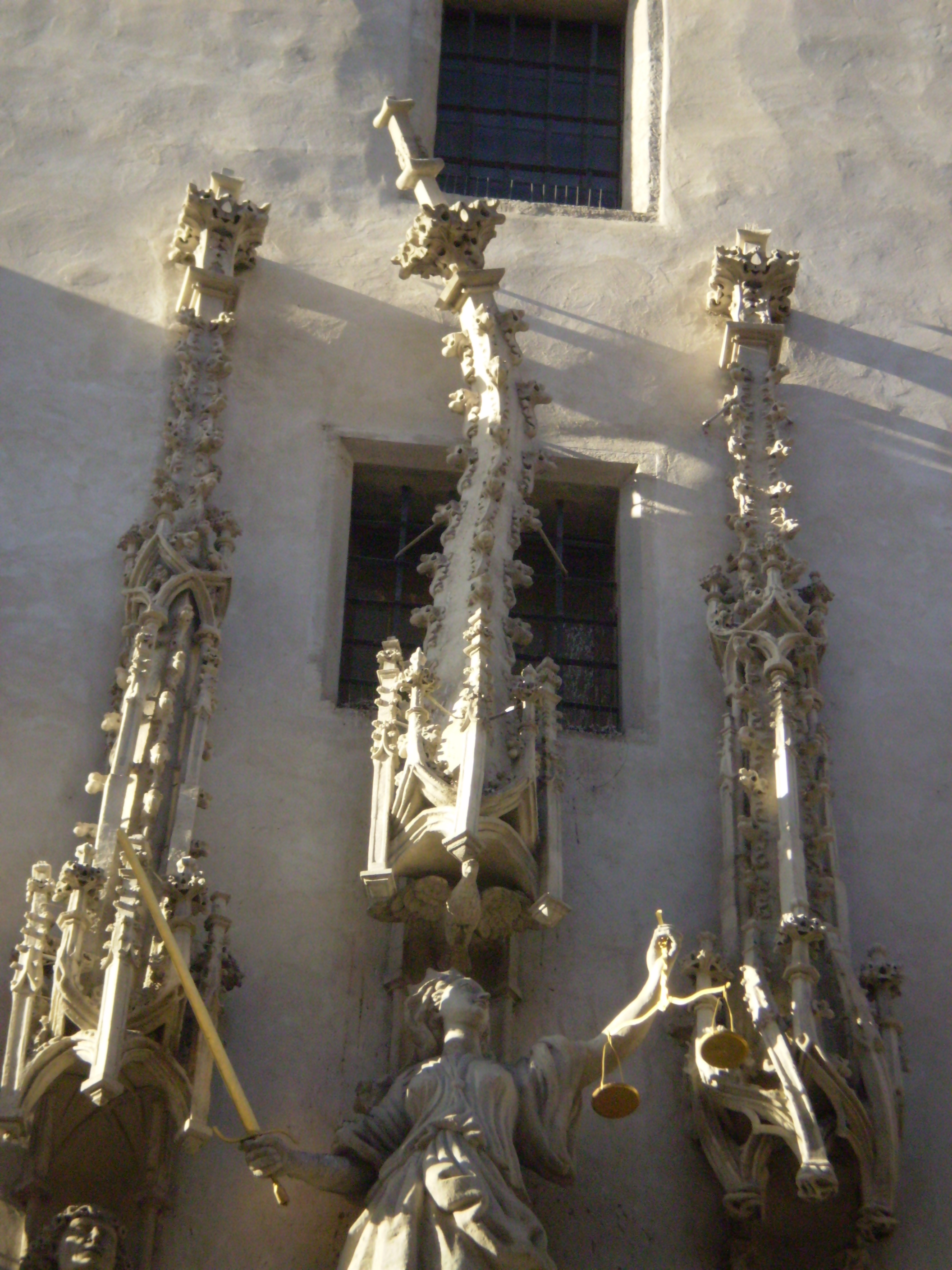 Crooked pinnacle, Old Townhall, Brno, South Moravian Region, Czech Republic